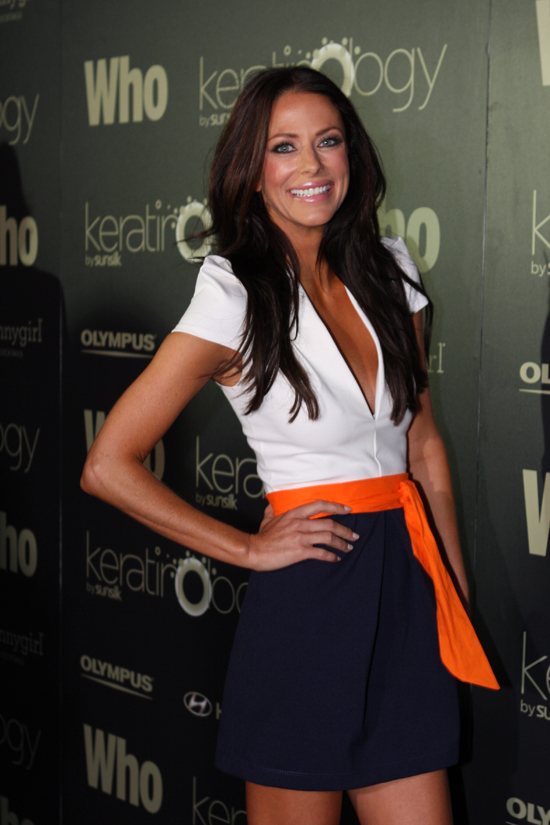 Actress Esther Anderson at "Who Magazine's" Sexiest People Party; Great Hall At University of Sydney, Australia